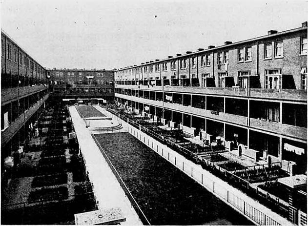 J.J.P. Oud. Housing estate Tussendijken, Rotterdam, courtyard. 1921 (largely destroyed 1943).